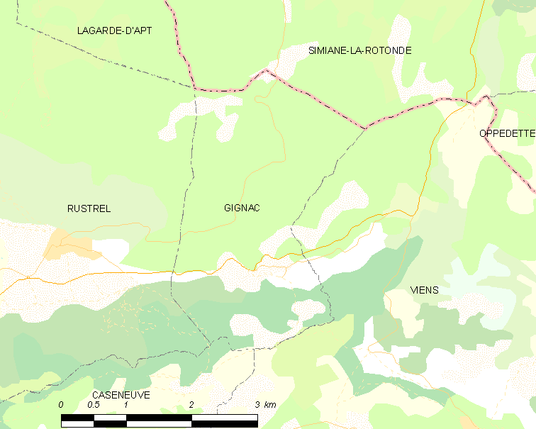 Map of French municipality Gignac